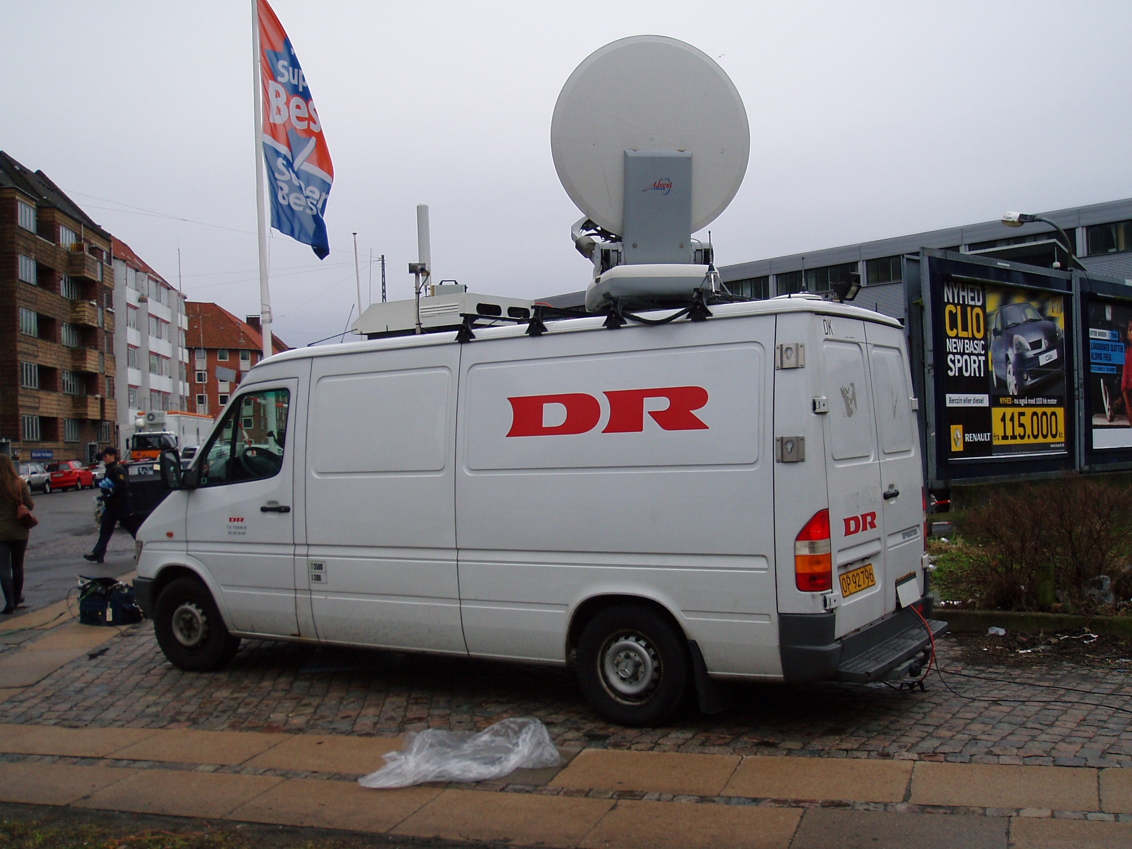 Mercedes-Benz broadcasting vehicle from Danmarks Radio broadcasting during a full-scale terror exercise in Copenhagen.